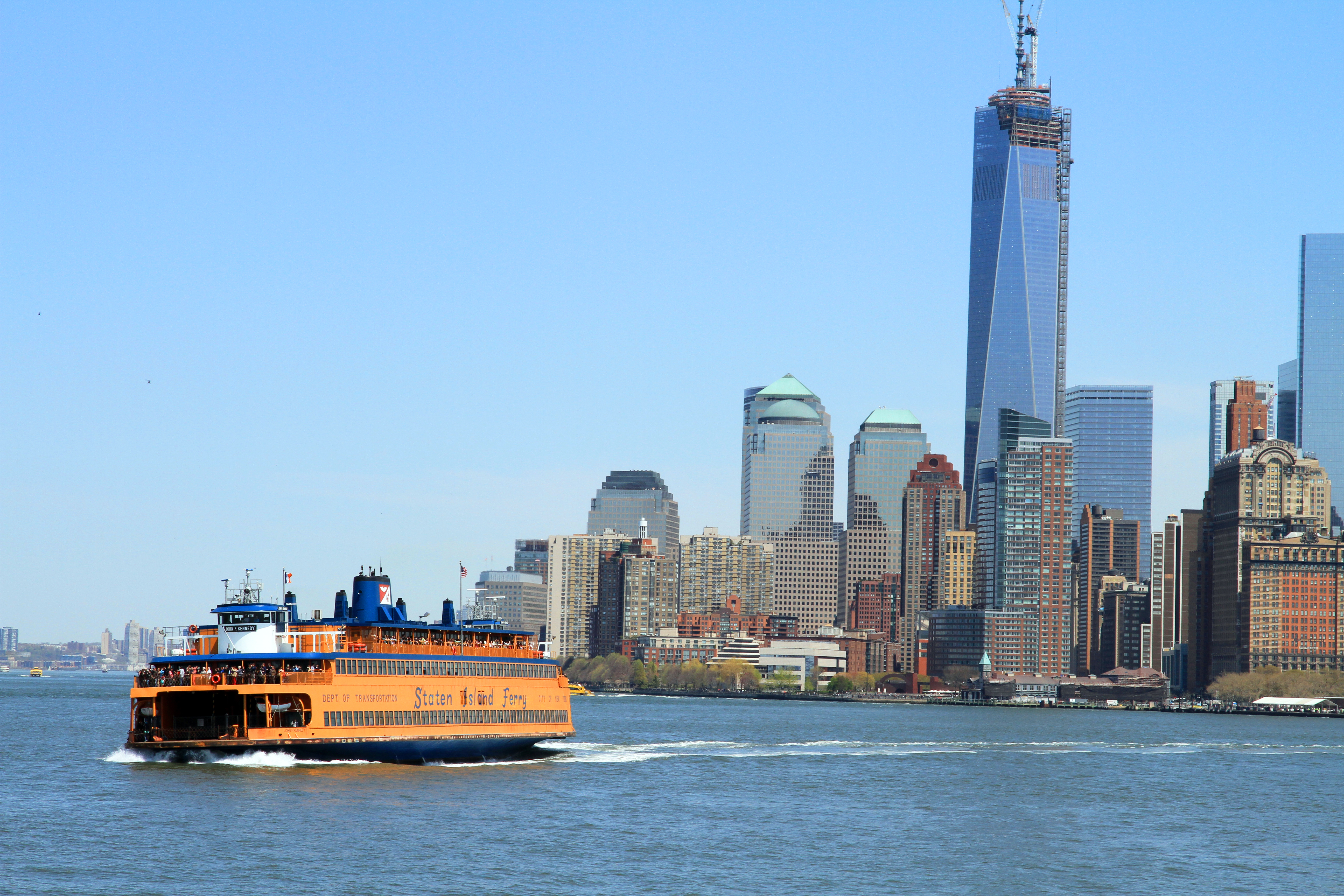 The John F. Kennedy boat, 2013